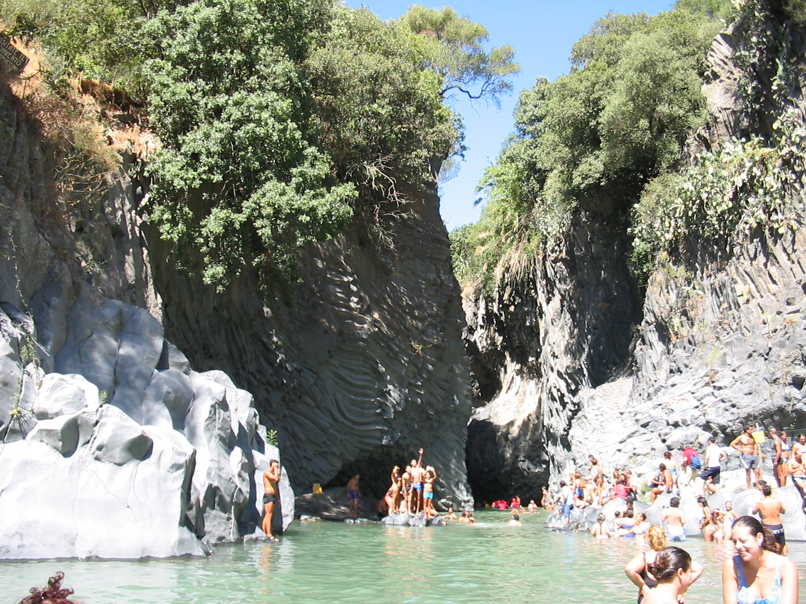 Golle dell'Alcantara in Motta Camastra, near Taormina in Sicily